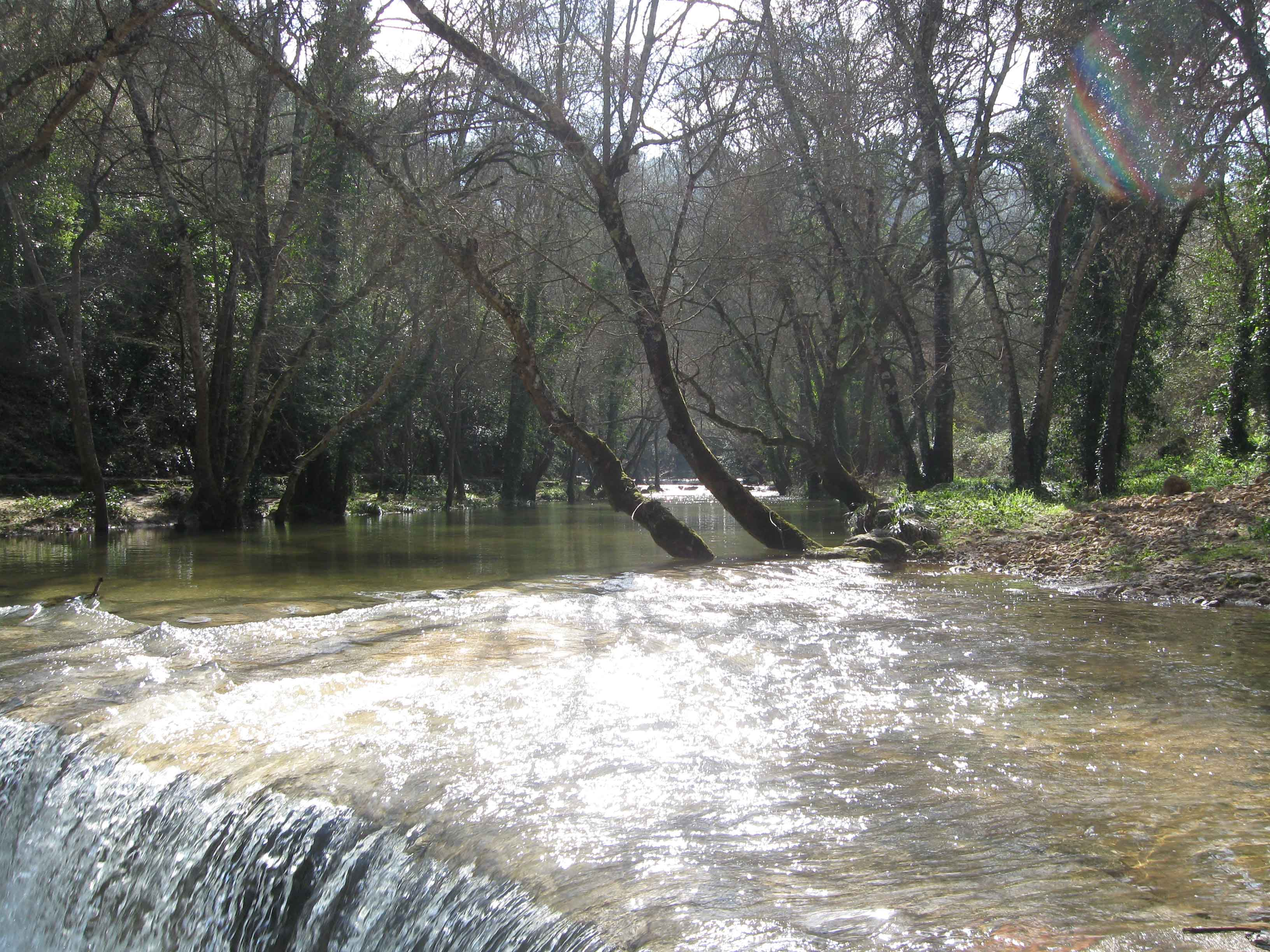 the photo is taken at the river side of Brague